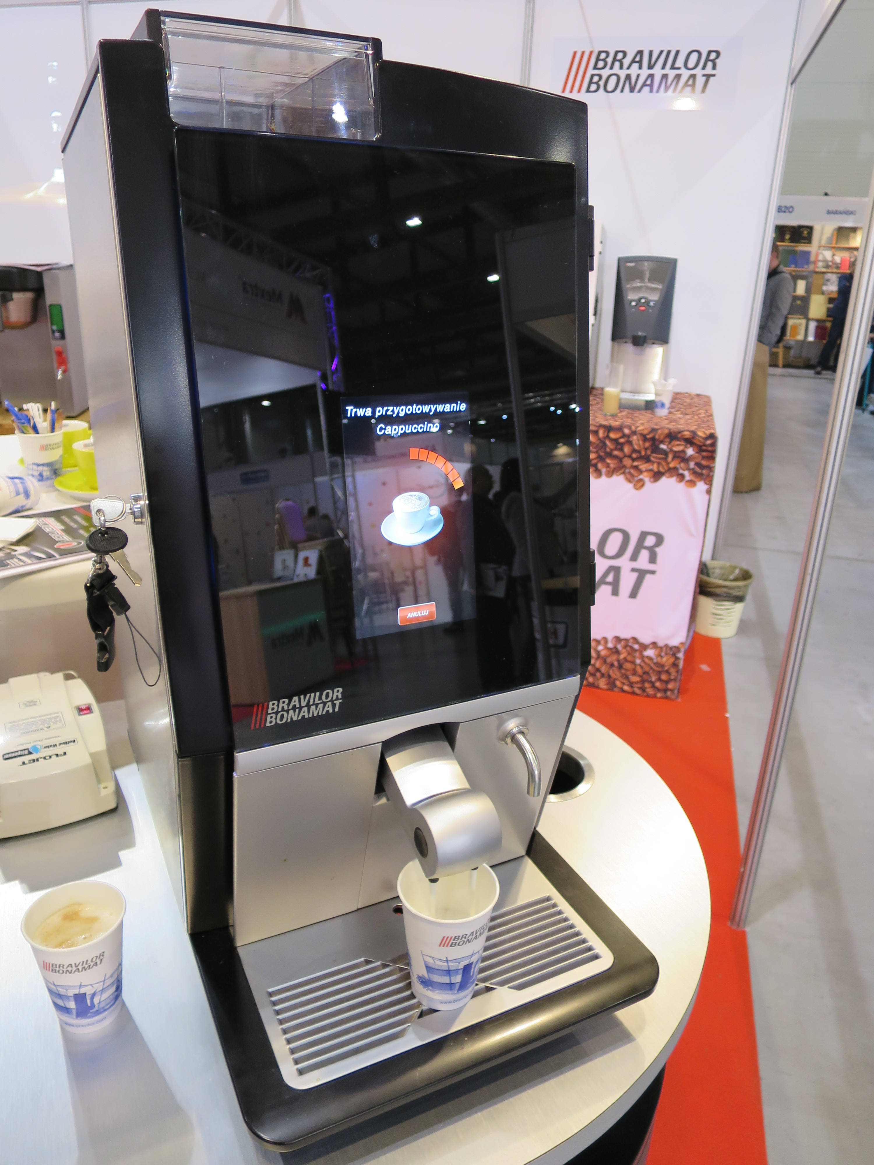 Ekspres Bravilor Bonamat The making of this document was supported by Wikimedia Polska Association, within Wikigrant no. WG 2015-48.